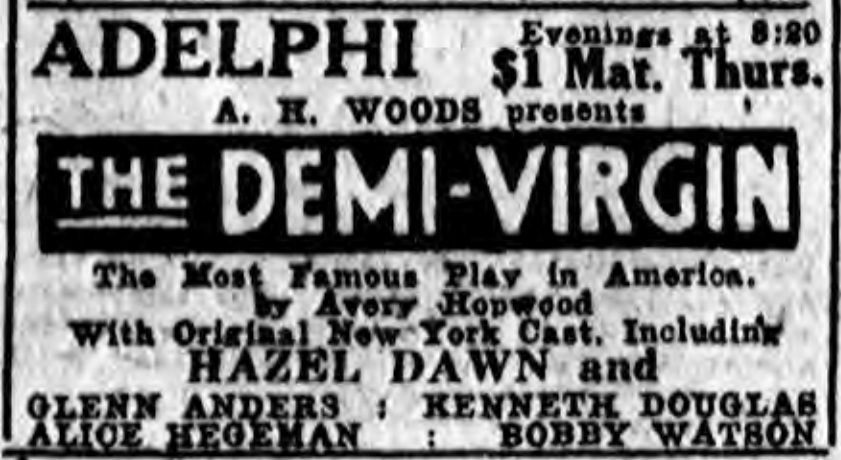 Newspaper advertisement for a Philadelphia production of The Demi-Virgin in 1922.